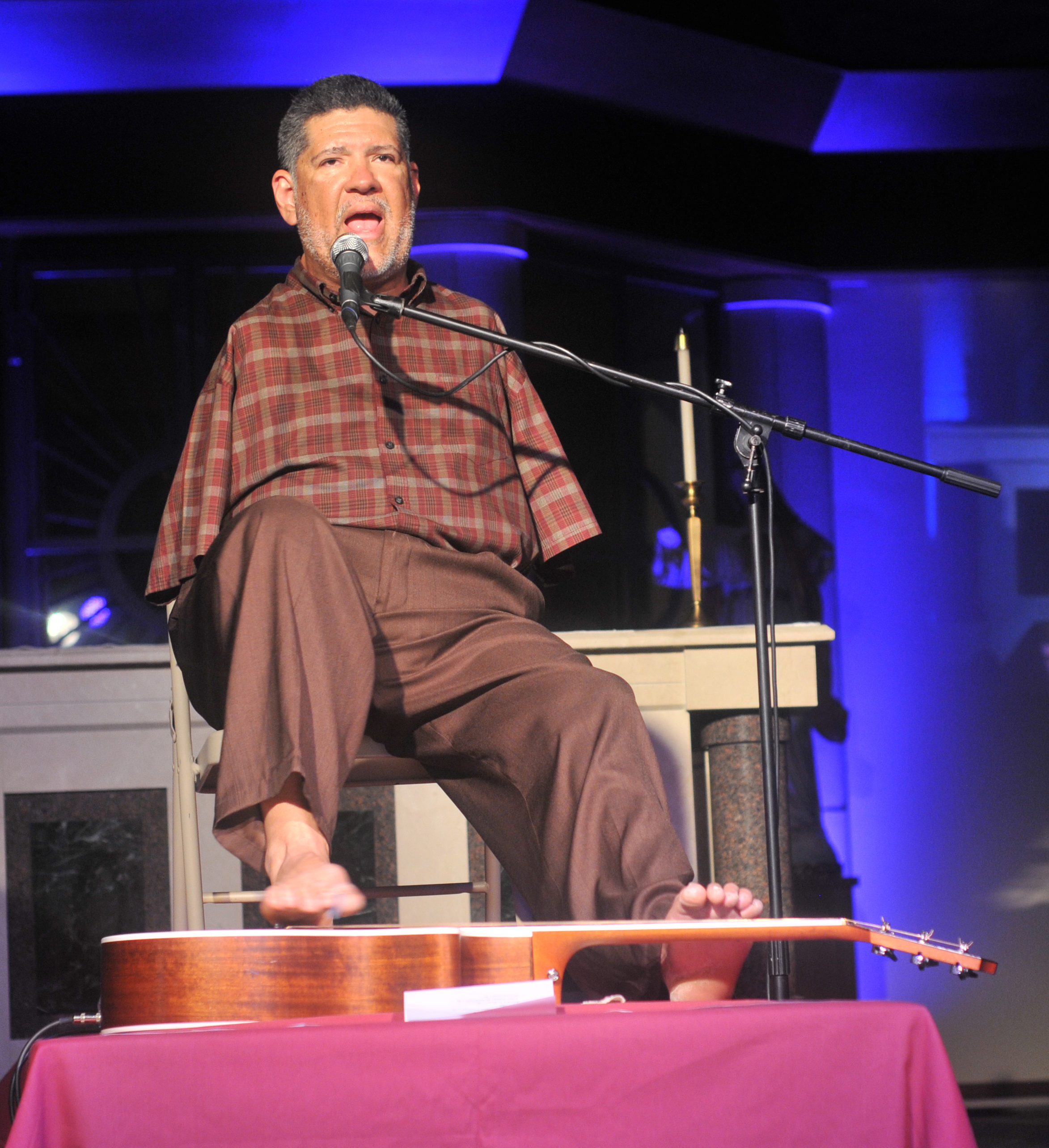 Tony Melendez performs at St. Patrick Church in Iowa City, Iowa March 6, 2015. Photo by Lindsay Steele/The Catholic Messenger